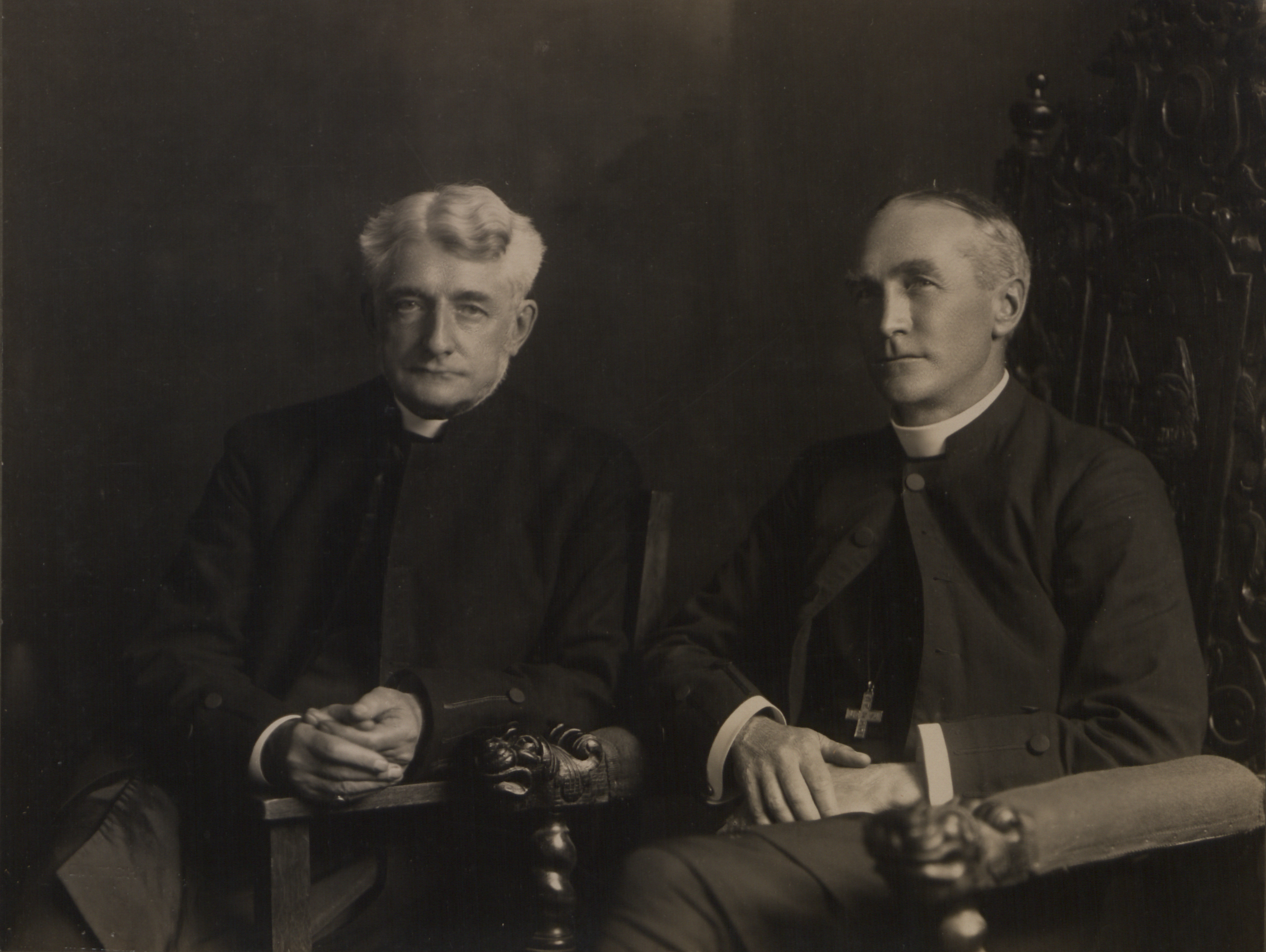 Right: Arthur Winnington-Ingram, Bishop of London. Left: James Carmichel, Bishop of Montreal